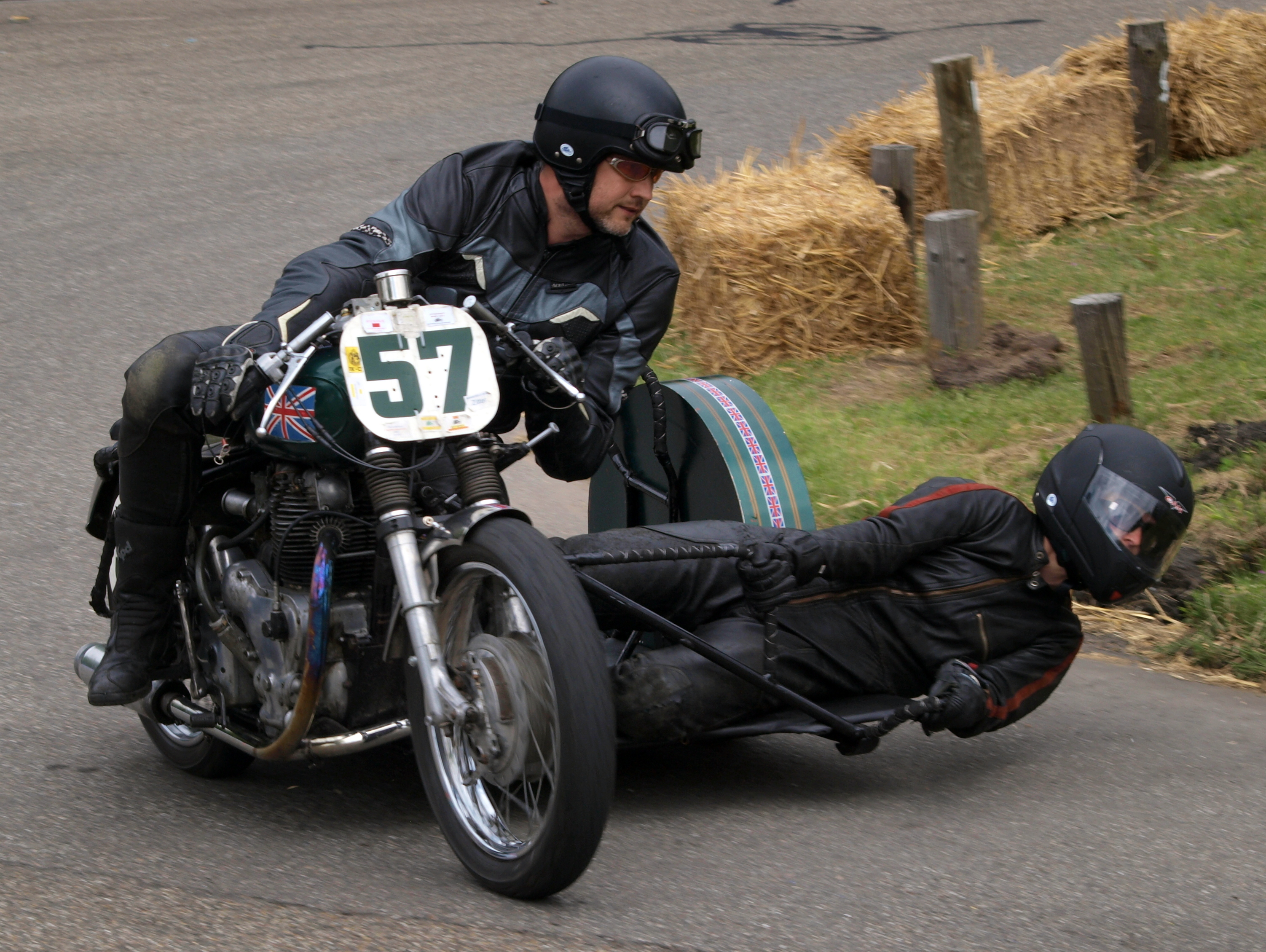 Photographed at Rockanje, The Netherlands.